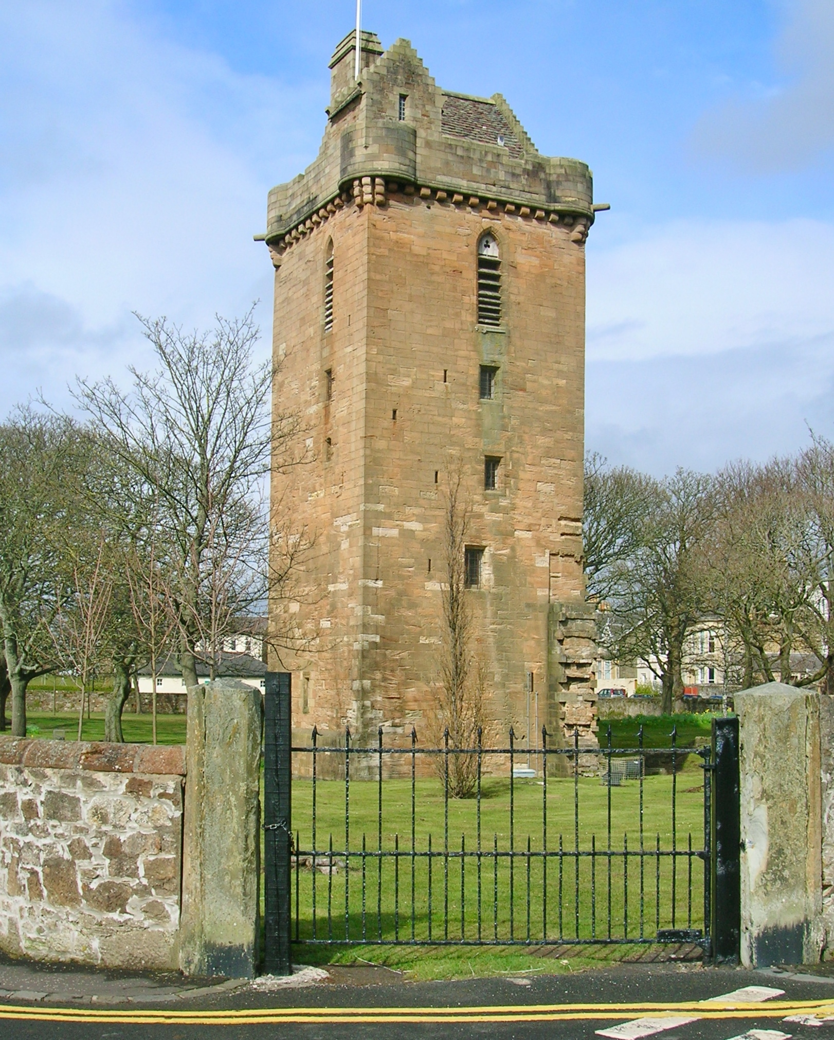 St John's Tower, Ayr, Montgomerieston. Robert the Bruce held a parliament here. South Ayrshire, Scotland.